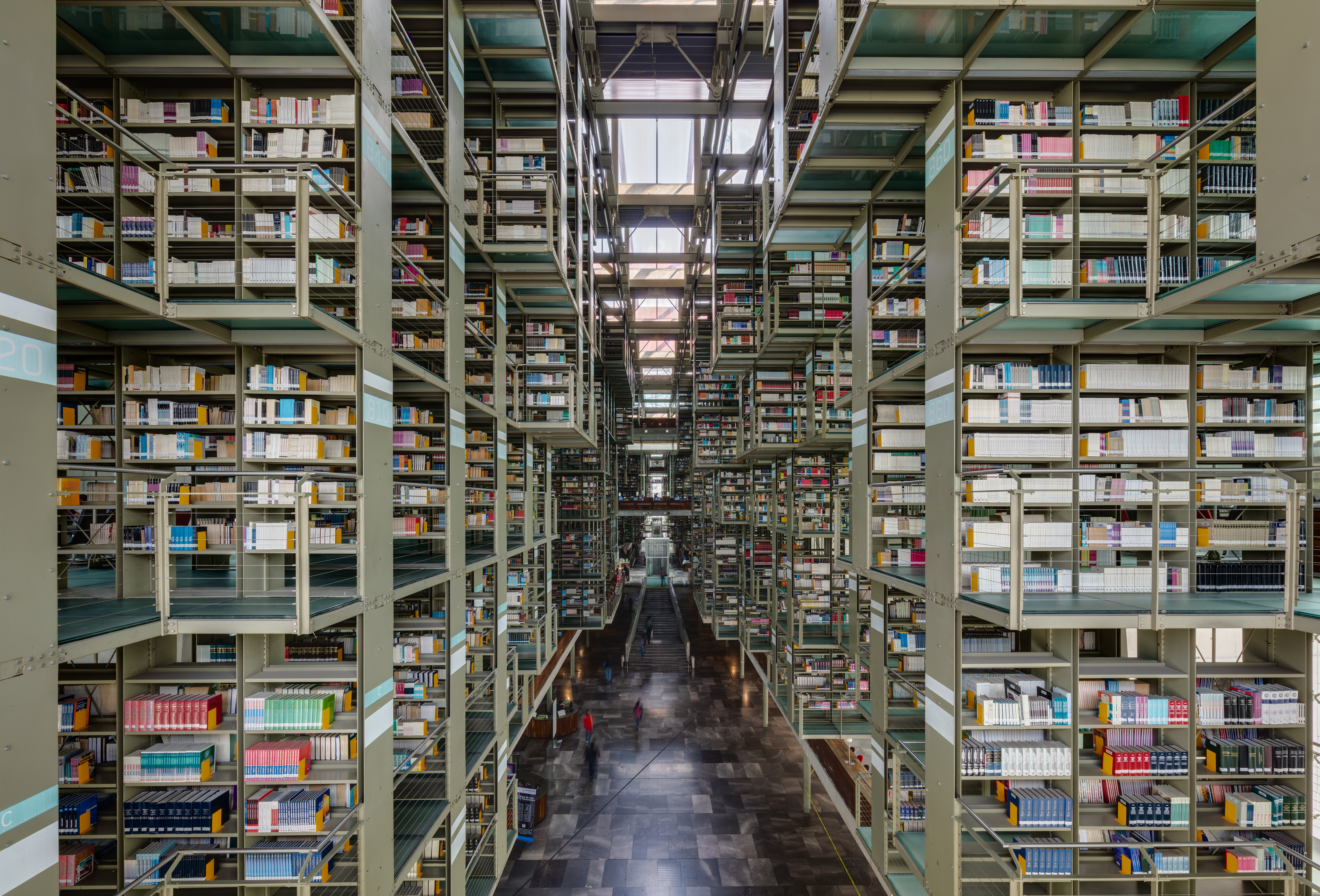 Biblioteca Vasconcelos (Vasconcelos Library) is a library located in the north of Mexico City, Mexico. It was inaugurated in 2006 and by 2015 had 600,000 publications and books, but there are plans to host up to 2 million items. The building, with a surface of aprox. 38,000 square metres (410,000 sq ft), was visited in 2014 by 1.7 million people and can host at the same time 5,000 people.